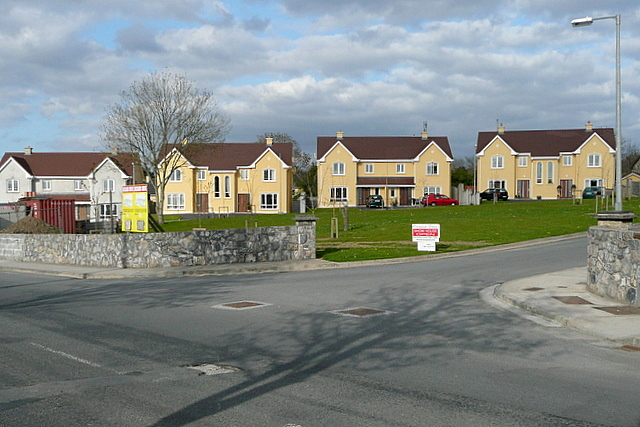 Estate at Clarecastle, near to Clare, Ireland. A fairly new estate on the southern side of the town in the suburb of Clarehill. It is not much of a hill, but the rising ground can be seen from the rooflines.